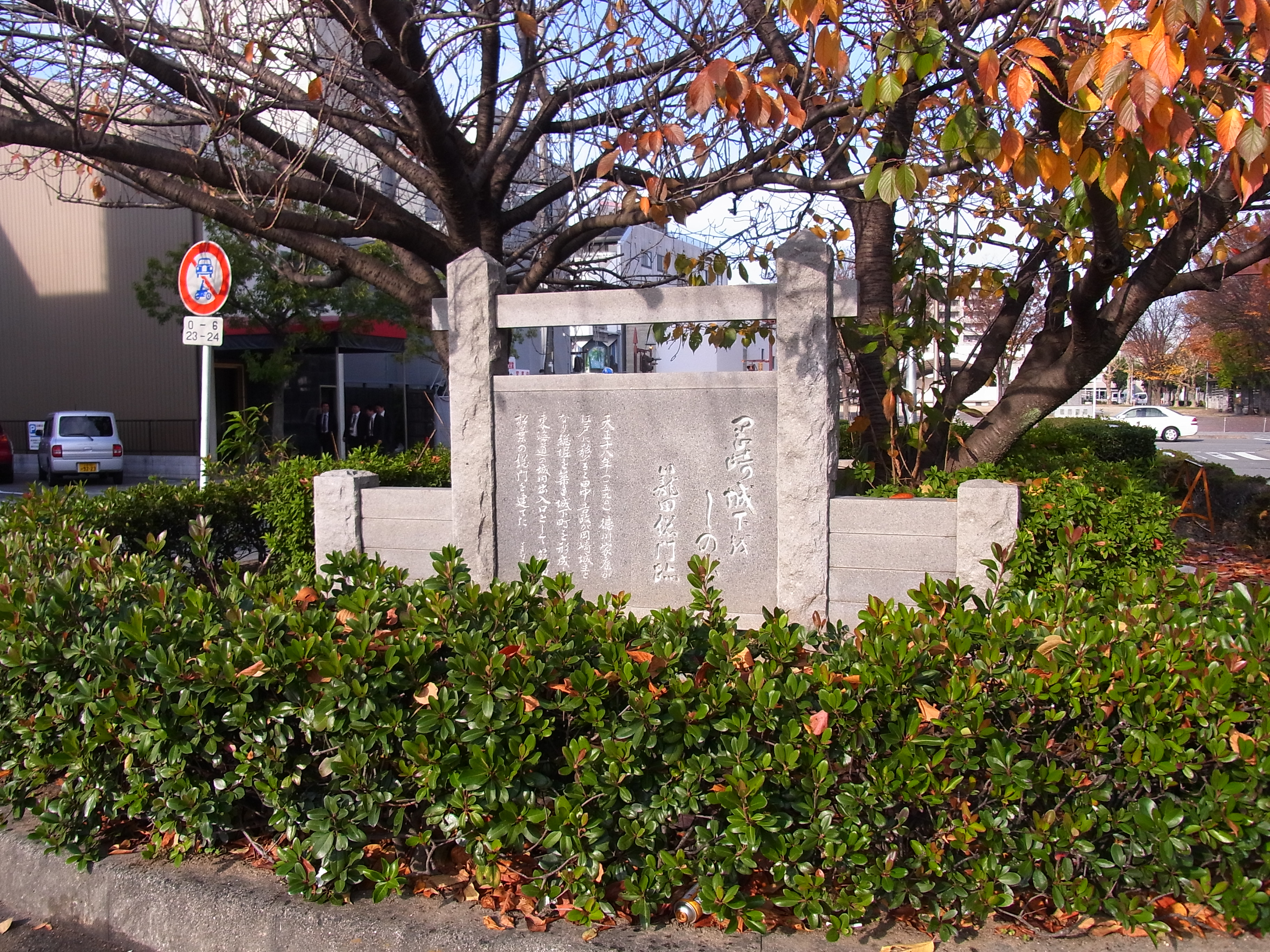 Monument of Kagoda Soumon (Kagoda main gate) in Okazaki city, Aichi prefecture.